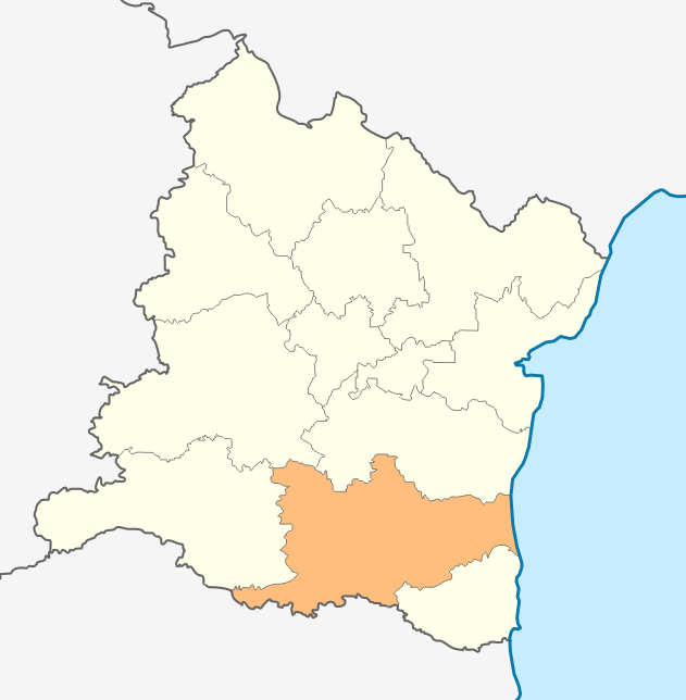 Map of Dolni chiflik municipality, Varna Province